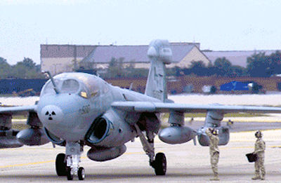 US Navy E6-B Prowler at Andrews AFB, Maryland (Naval Air Facility)